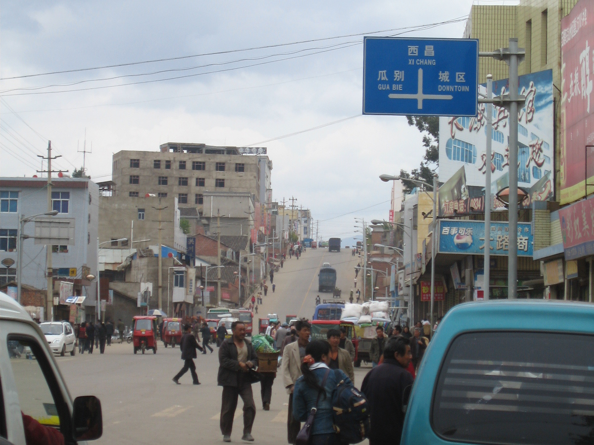 Central Yanyuan